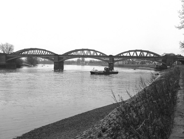 Barnes Railway Bridge over the River Thames Well known to boat race aficionados is this triple iron bowstring girder bridge, which has Grade II Listed status. It was reconstructed in 1895 from the older bridge of 1849. The bridge carries the Hounslow Loop Line.